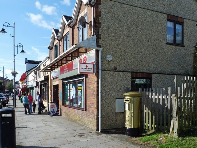 Mark Colbourne's gold postbox at Tredegar Post Office, Gwent.